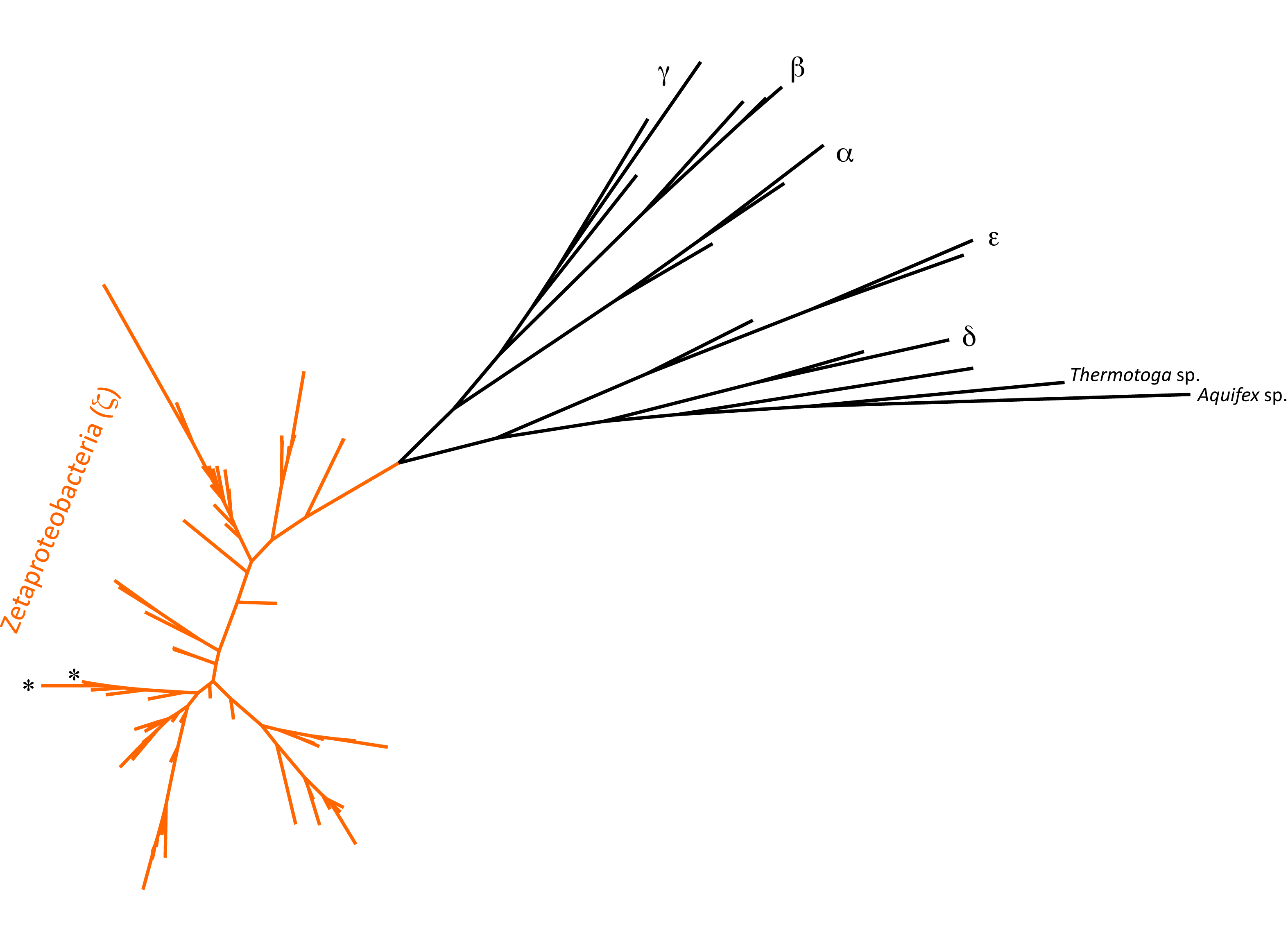 Maximum likelihood phylogenetic tree showing the root (Aquifex/Thermotoga) and the Proteobacteria (Greek symbol represents each name), with a focus on the Zetaproteobacteria (highlighted in orange). The four cultured isolates (as of 2011) are highlighted with an asterisk.